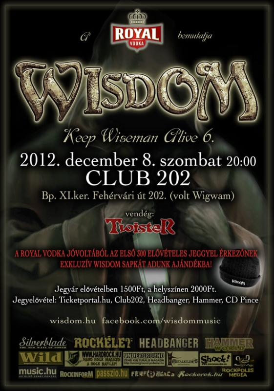 This flyer was made for the Keep Wiseman Alive VI show in 2012.